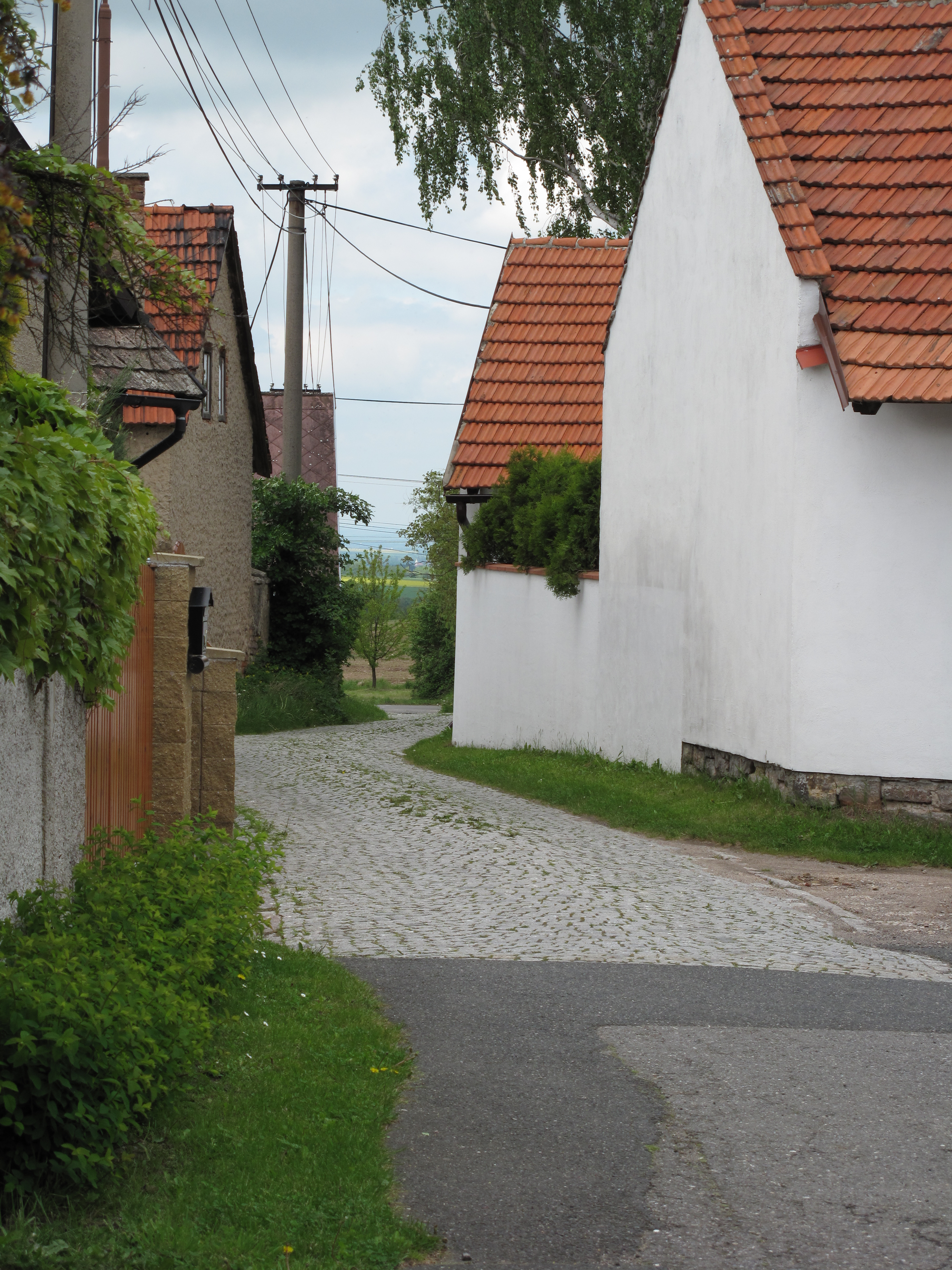 Houses by road in Bulánka village, Prague-East District, Czech Republic.